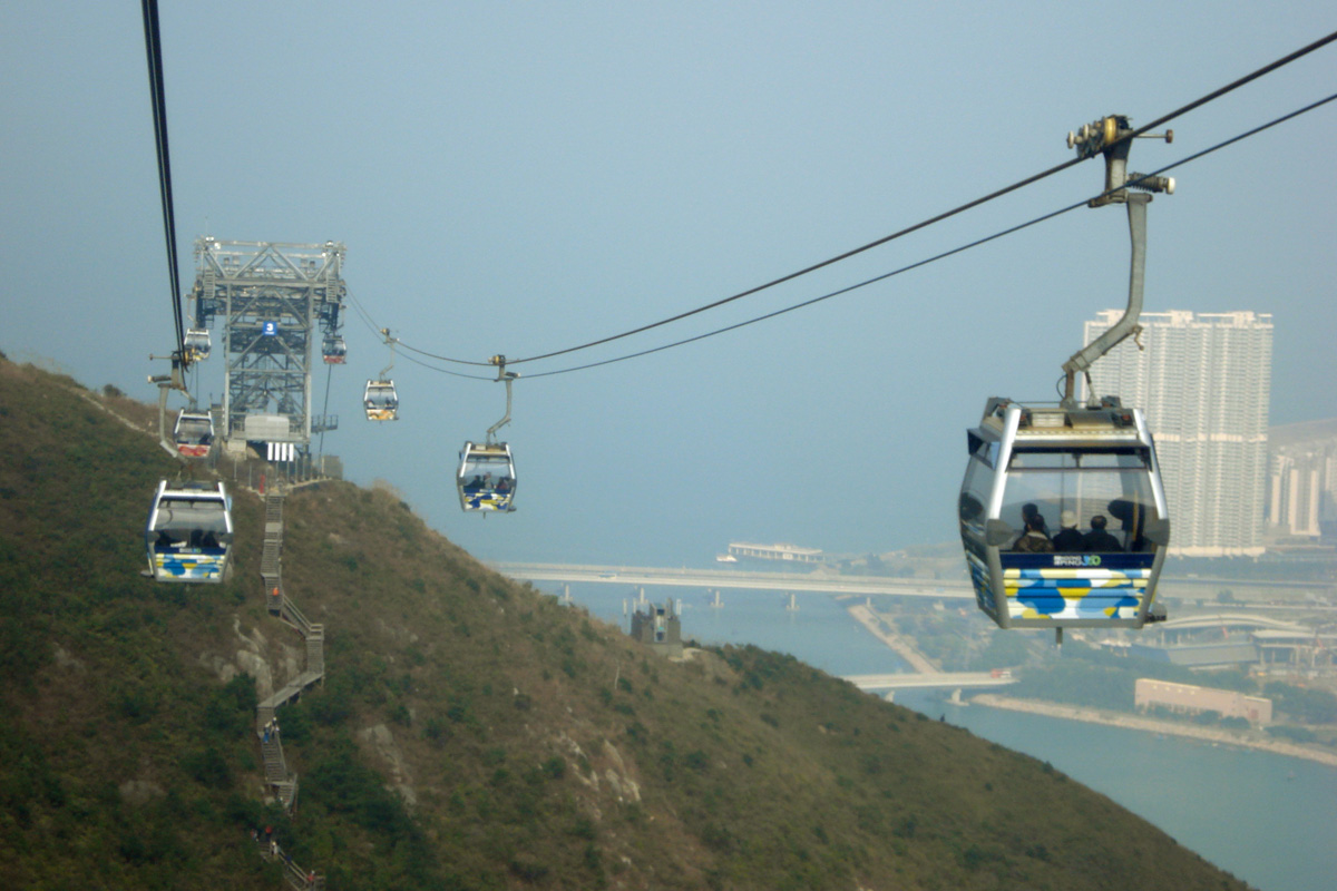 Ngong Ping 360 Cable Car in new colour